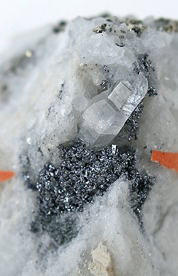 Galena, Marrite Locality: Lengenbach Quarry, Im Feld (Imfeld; Feld; Fäld), Binn Valley, Wallis (Valais), Switzerland (Locality at ) Size: miniature, 4.1 x 2.2 x 1.9 cm Marrite with Galena ex. Dr. Mark Feinglos Collection A validated specimen of this ultra-rare silver-lead-arsenic sulfide species from Lengenbach. Mark exchanged it from Dr. Jaroslav Hyrsl who in turn obtained it in trade from the Natural History Museum in Bern, Switzerland, in about 1995. Although microcrystalline, the specimen has some display value - more than most such. The two arrows point to the marrite microxls (one or two at each arrow). The rest is galena. The marrite is dull on the surface, as opposed to the galena, which is bright. Really microscope stuff, but very rare, and a silver mineral, so likely of interest to some folks. (TYPE LOCALITY)